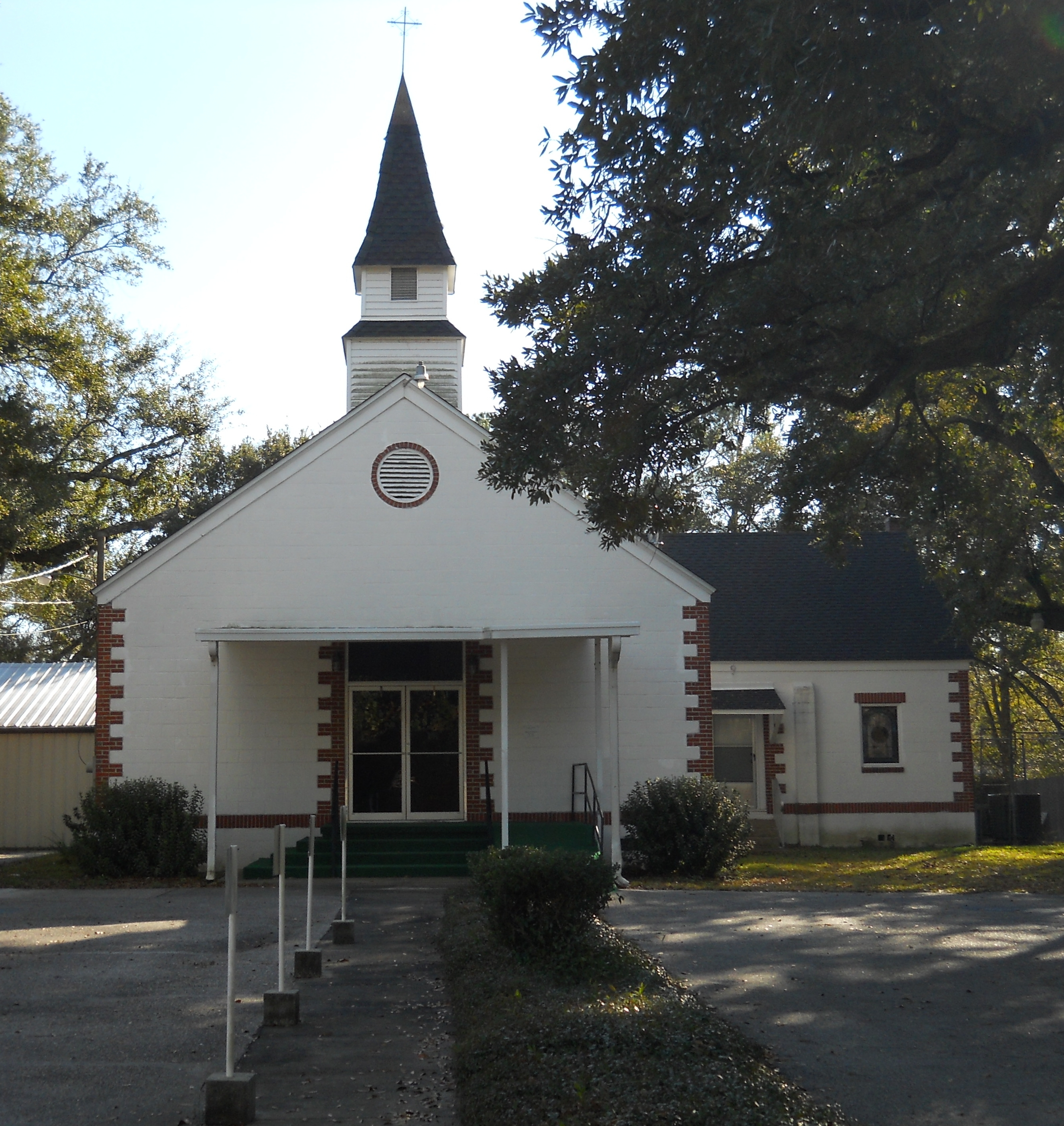 Mount Pleasant United Methodist Church at 14255A Rippy Road in the Turkey Creek Community Historic District, Gulfport, Harrison County, Mississippi, USA. Constructed circa 1950. Turkey Creek Community Historic District was added to the National Register of Historic Places on March 21, 2007.